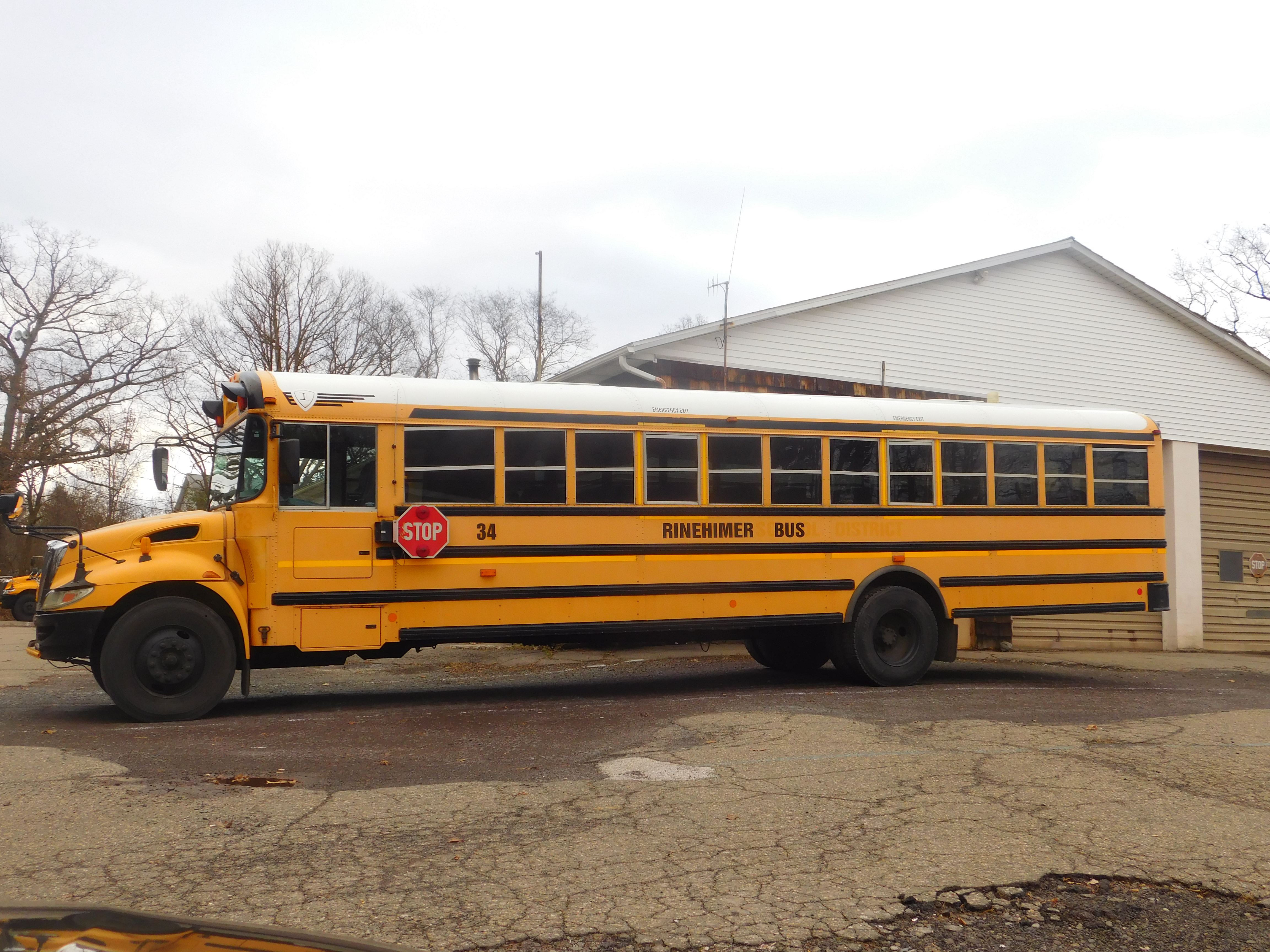 Crestwood School District has a contract with Rinehimer Bus Lines of Slocum Twp, Seen in the photo is 2009 International Bus #34